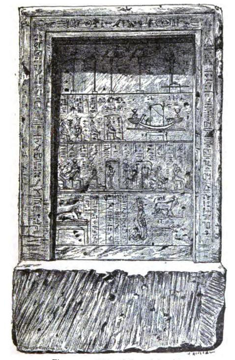 The "Inventory Stela", found by Auguste Mariette in 1858 Close to the Pyramid G I-c at the cemetery G 7000 of the Great Pyramid of Khufu in Giza. 26th Dynasty. Mentions a princess "Henutsen", probably a daughter of Khufu. Egyptian Museum Cairo, JE 2091.